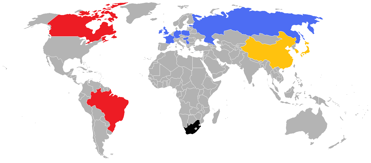 women's football - universiade 2009 - teams